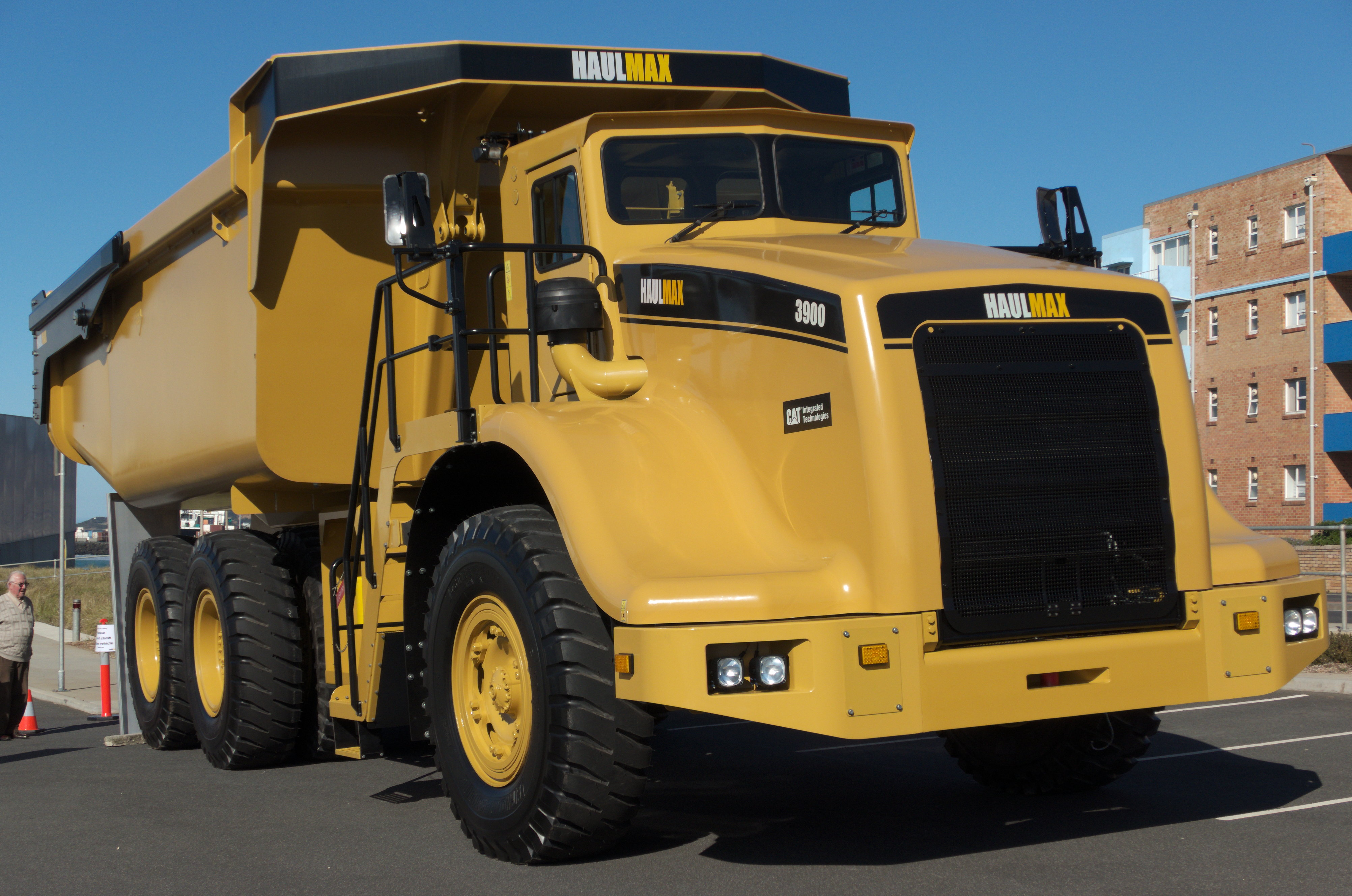 A Haulmax 3900 dump truck in Burnie, Tasmania. They are built by Haulmax in Wynyard for use as long-haul mining trucks.